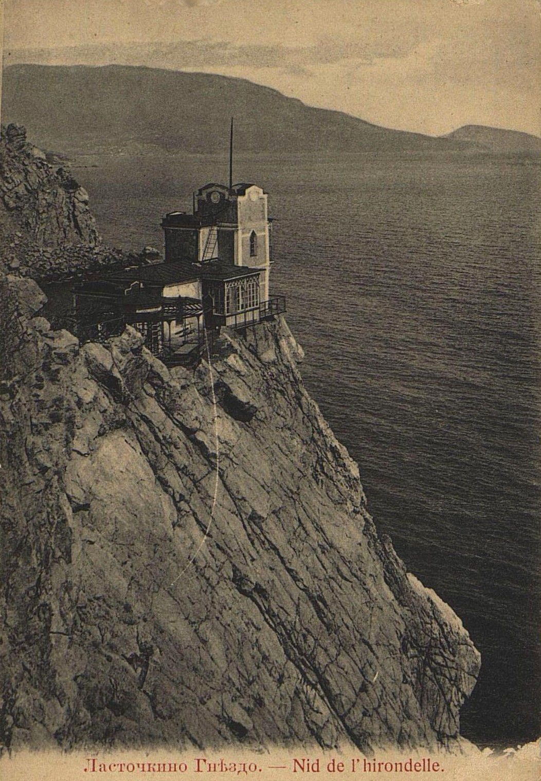 Swallow's Nest (Crimea) (XIX)